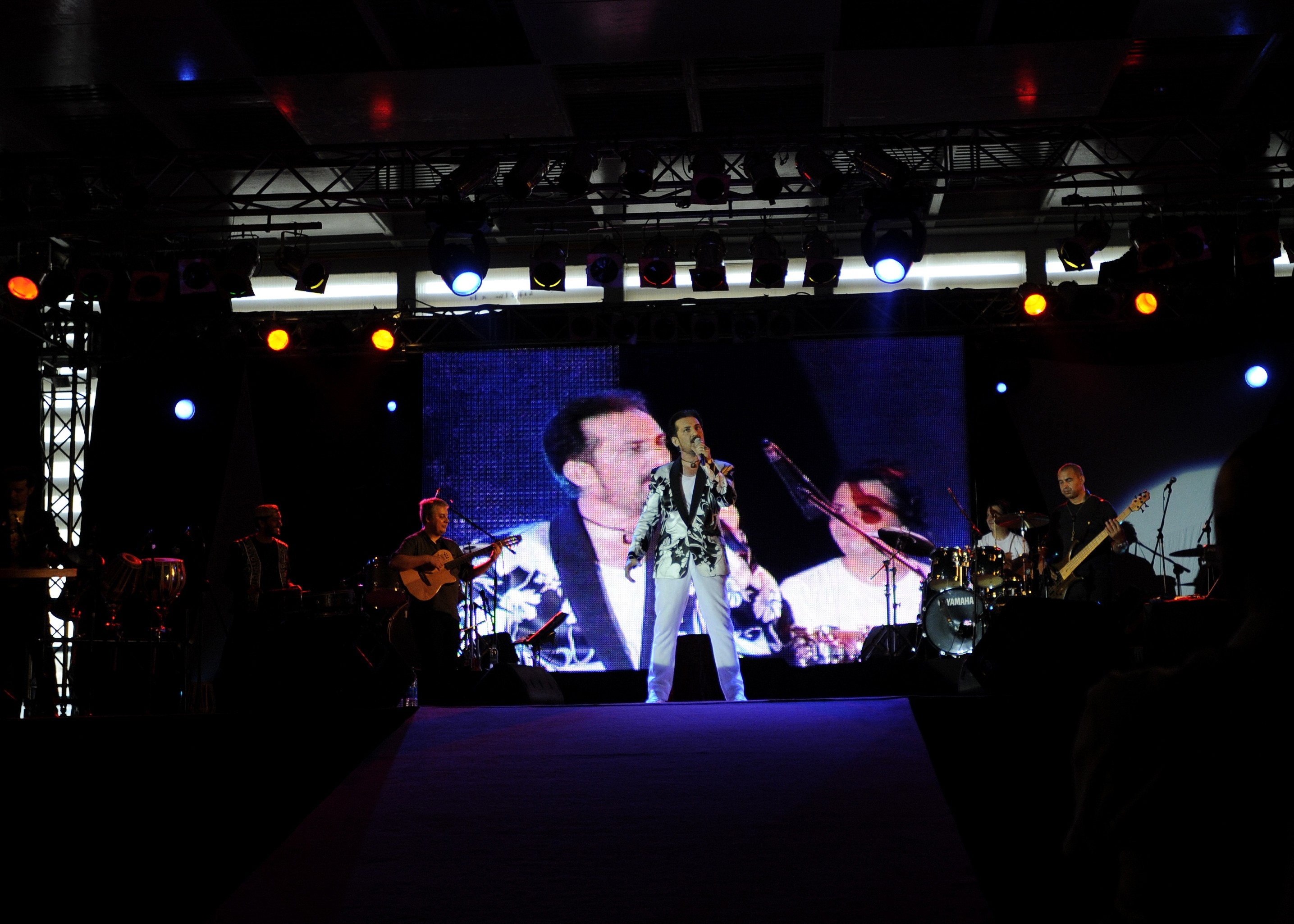 Farhad Darya at the July 2010 Peace Concert in Kabul, Afghanistan.